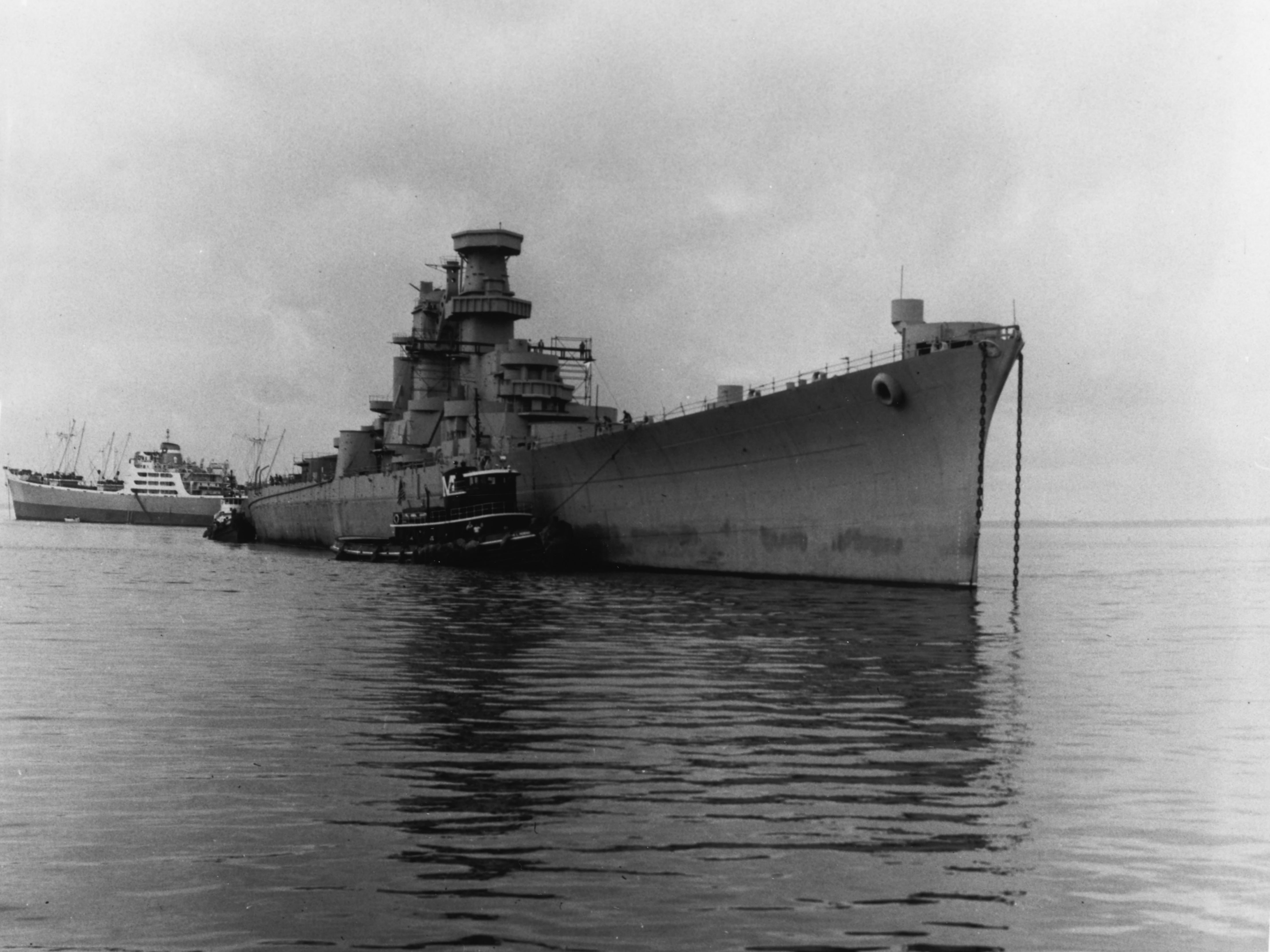 The U.S. Navy large cruiser USS Hawaii (CB-3) being towed away for scrapping on 20 June 1959.